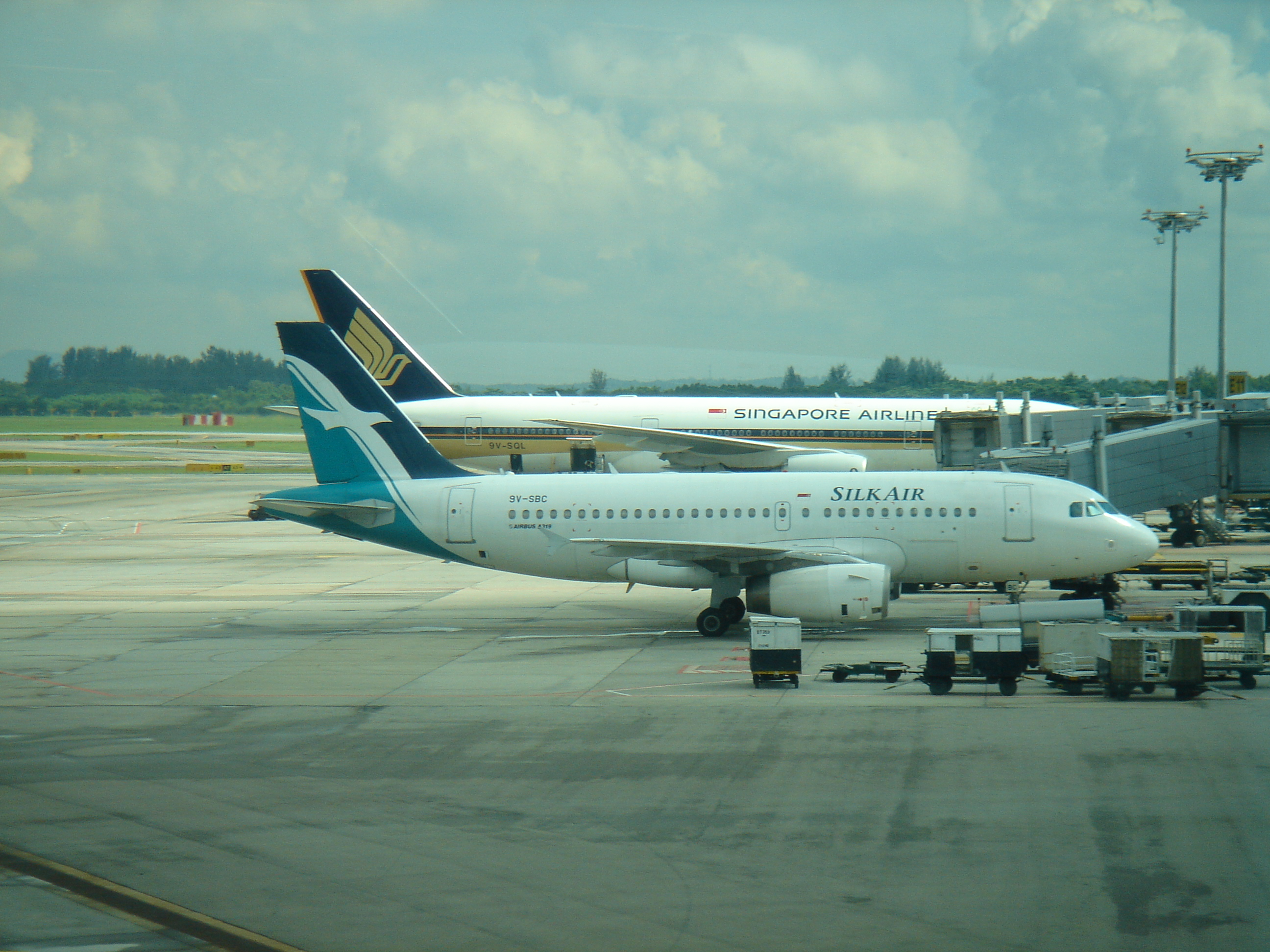 Silkair A319-100 (9V-SBC) and Singapore Airlines 777 (9V-SQL) aircraft parked at Singapore Changi Airport.